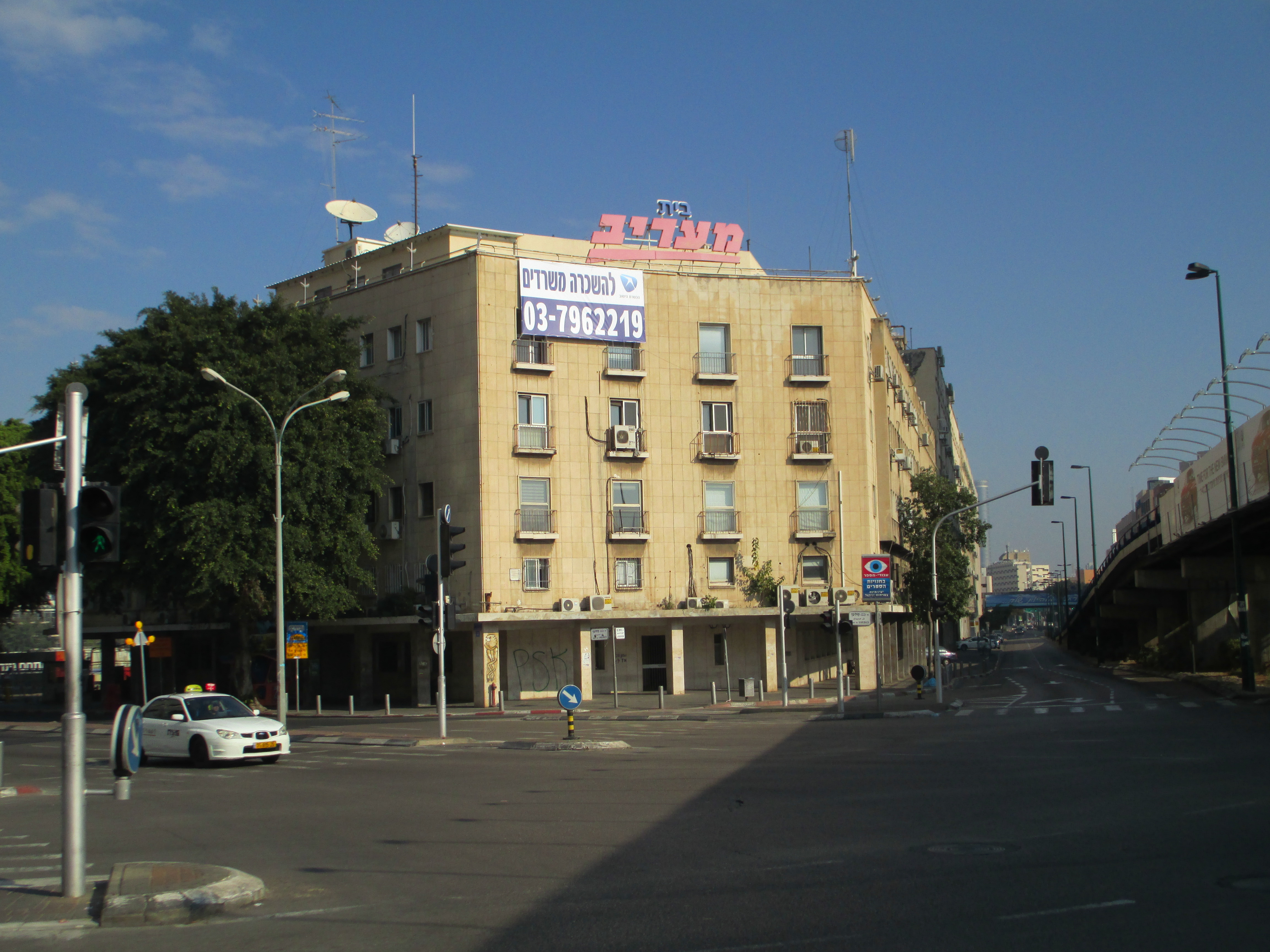 Maariv house in Tel Aviv